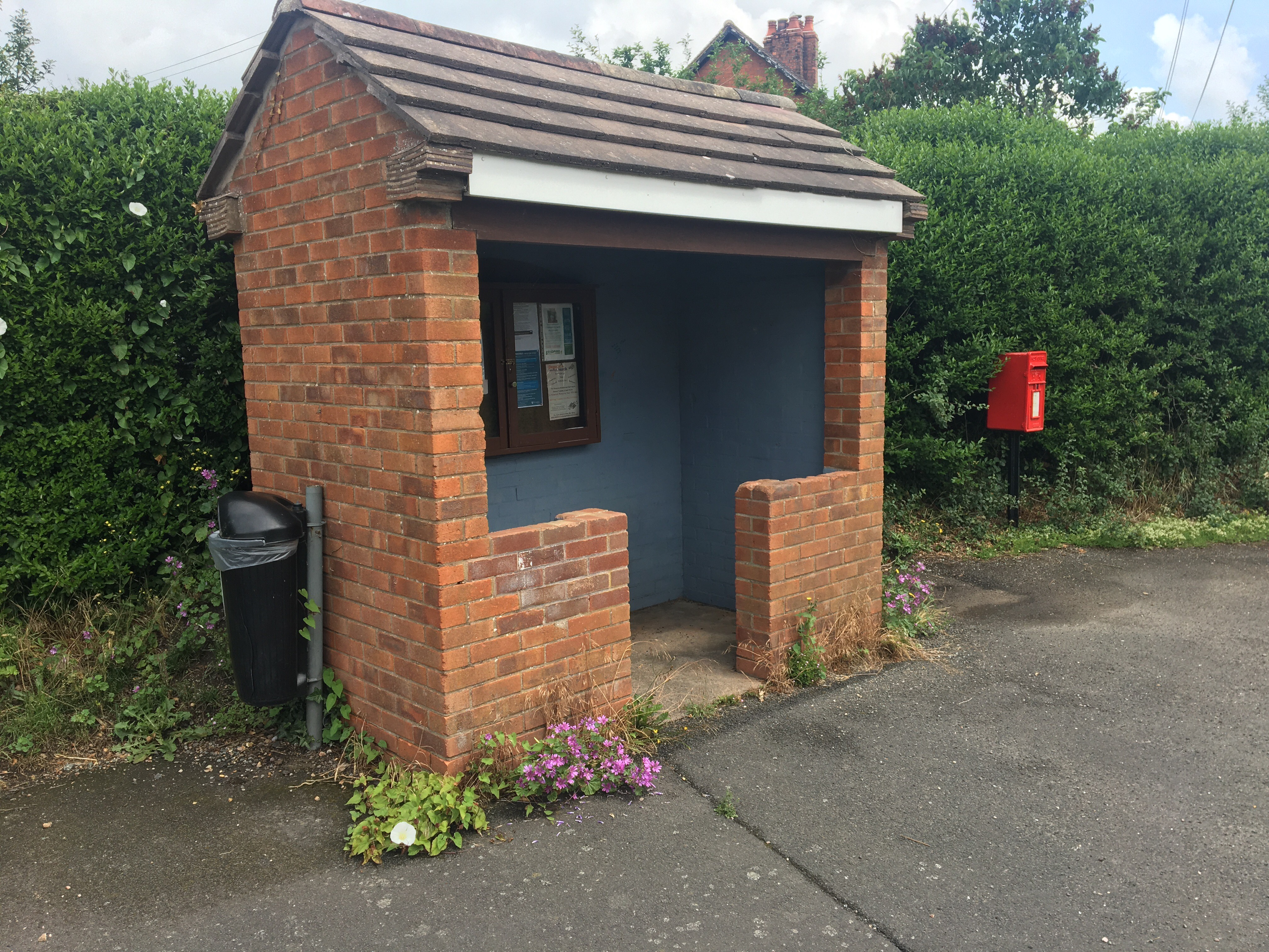 Disused bus stop in Stoke on Tern, Shropshire. The bus service serving the village was withdrawn in 2016